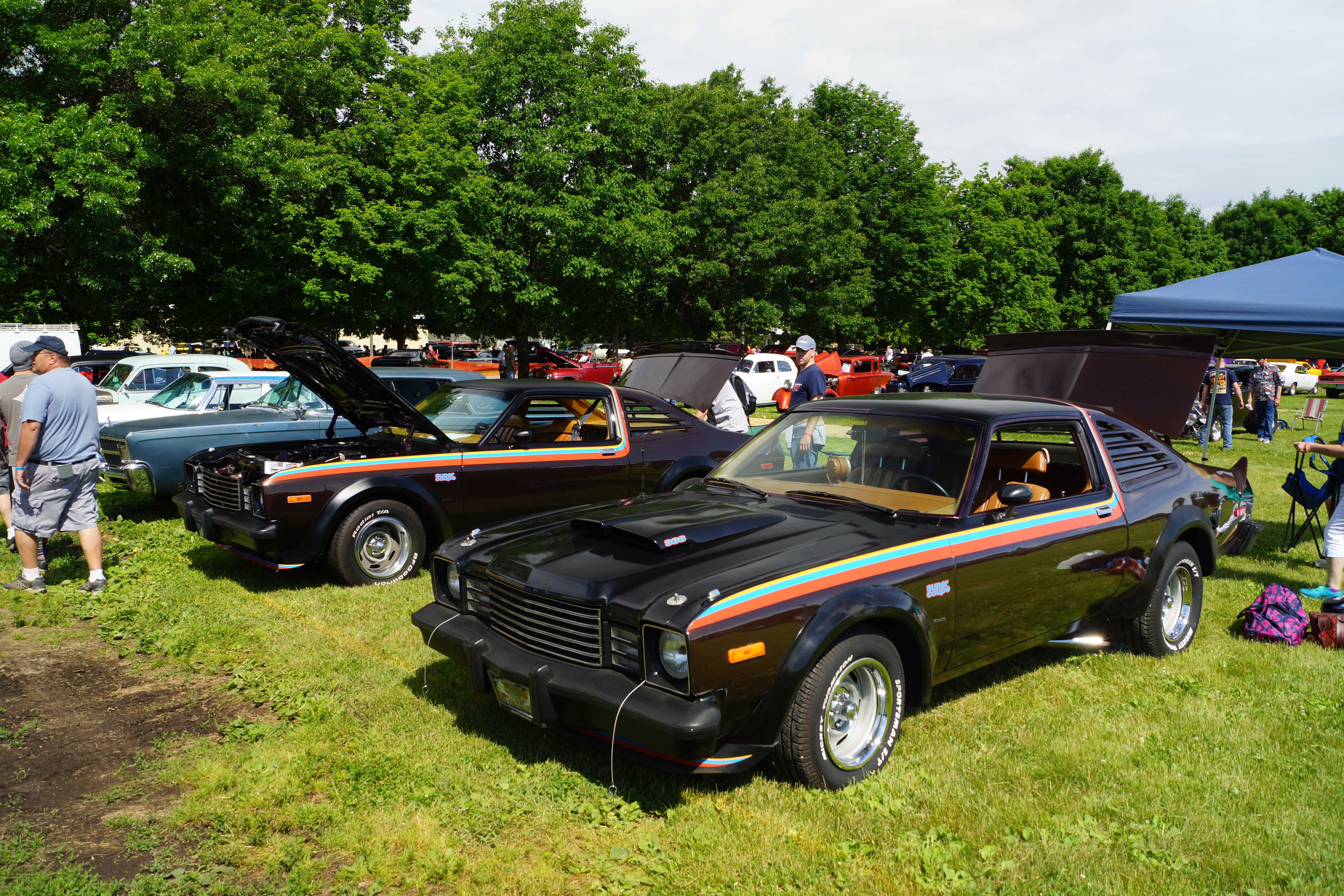 2 Dodge Aspen Super Coupes at Midwest Mopars in the Park, June 2016